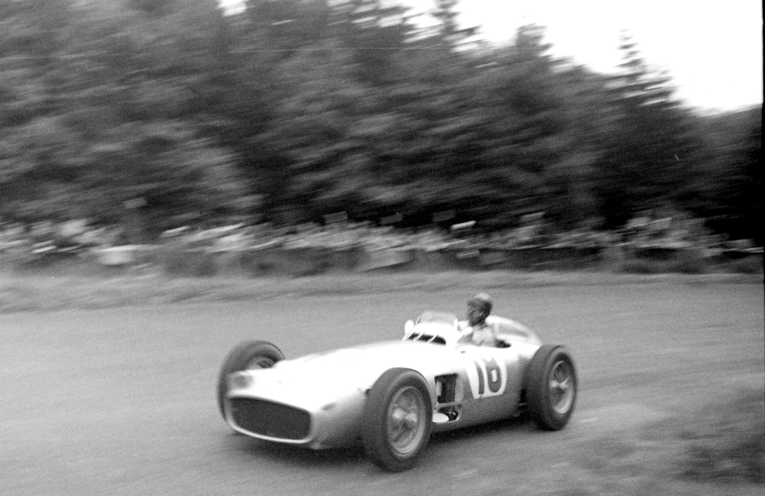 Grosser Preis von Europa, Nuerburgring Germany, August 1st, 1954, racing driver: Juan Manuel Fangio, Mercedes-Benz W196 Monoposto